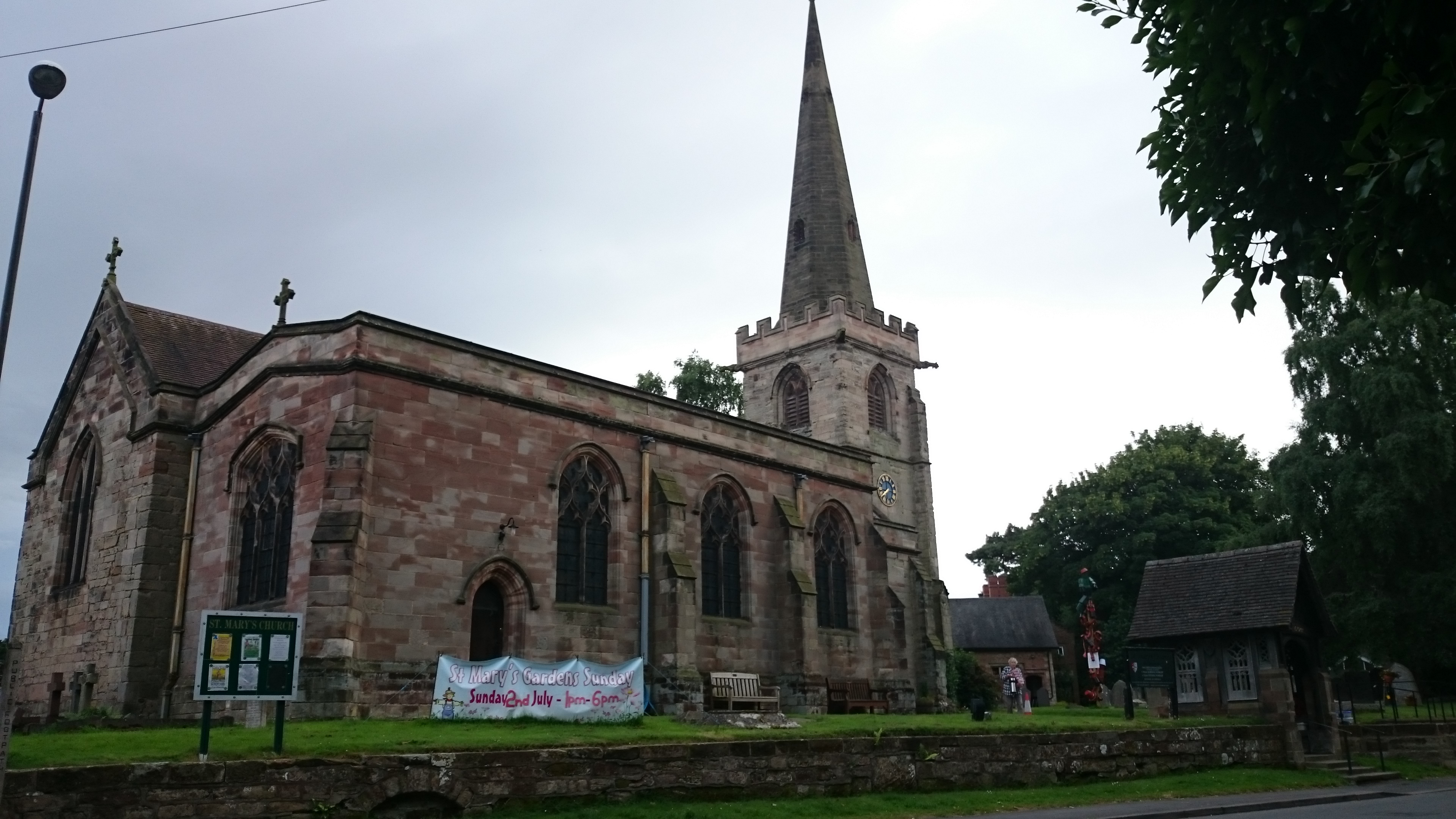 Church Of St Mary Wikidata has entry Q17540764 with data related to this item.